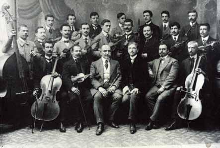 Ангел Букорещлиев, Антон Безеншек и хористи от Пловдивското певческо дружество сред гостуващи хърватски музиканти, юни 1886 г.